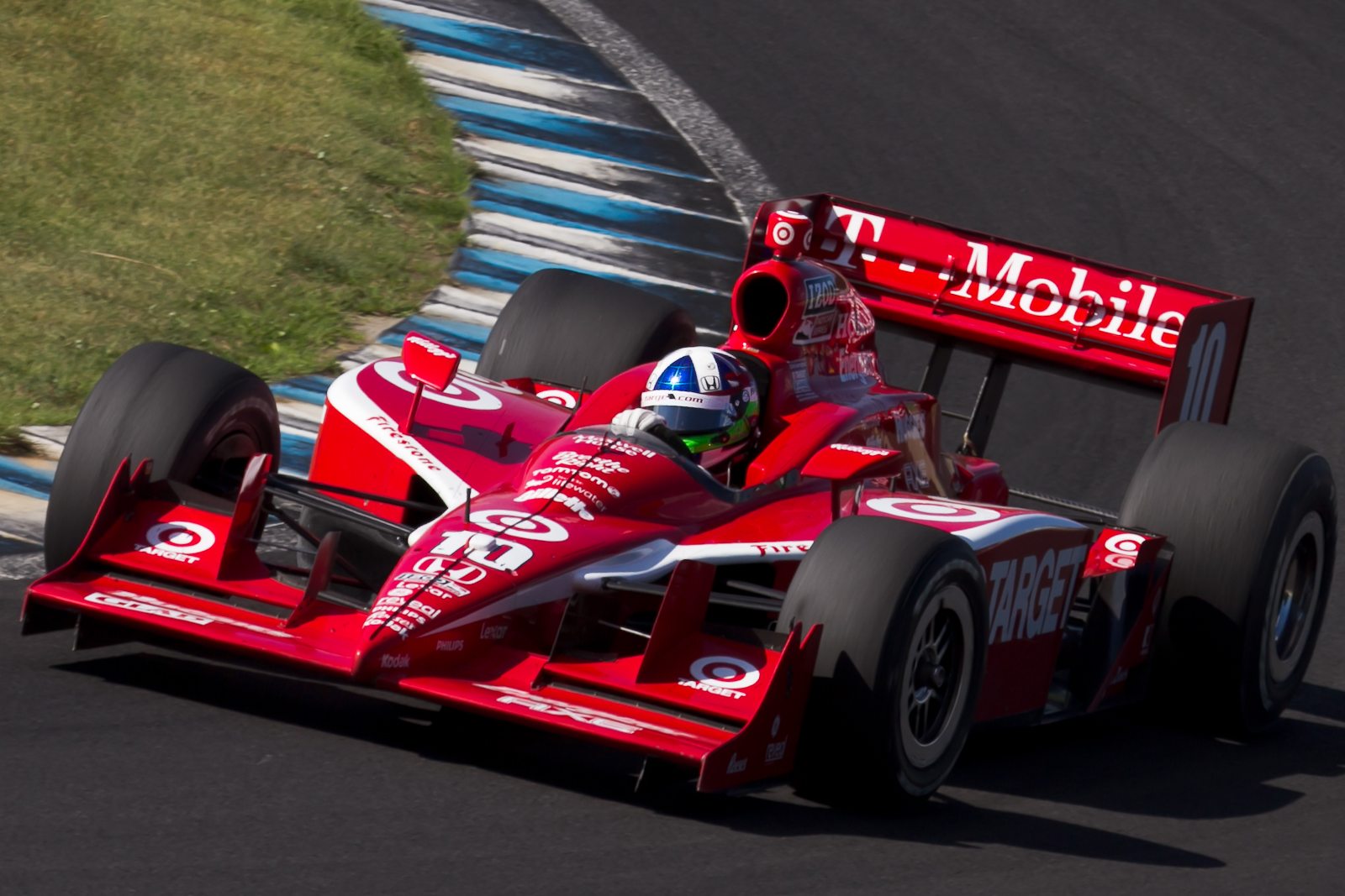 IndyCar Series 2011 Rd.15 Indy Japan 300: Dario Franchitti (Chip Ganassi)